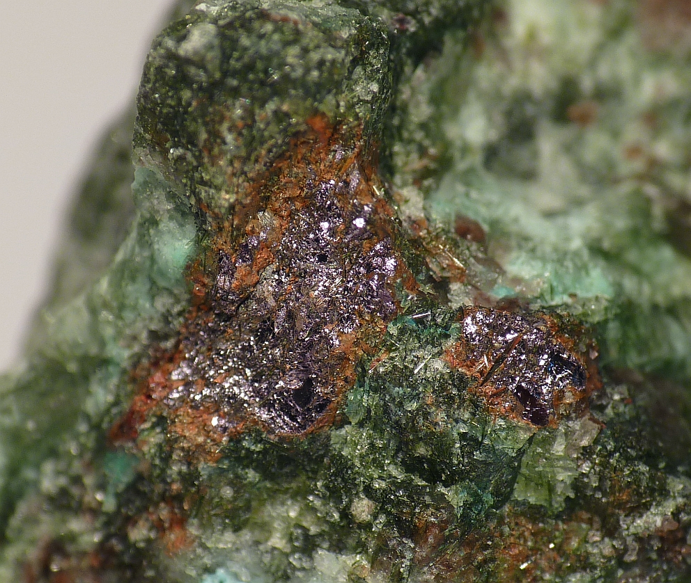 Cuprostibite Locality: Nakkaalaaq, Ilímaussaq complex, Narsaq, Kujalleq, Greenland Field of view 1.8 cm